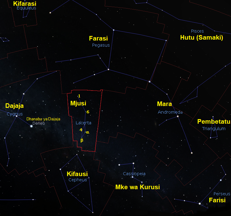 Constellation Lacerta as seen from Tanzania, Swahili labelled Kiswahili: Kundinyota Mjusi (Lacerta) jinsi inavyoonekana kutoka Tanzania, majina kwa Kiswahili